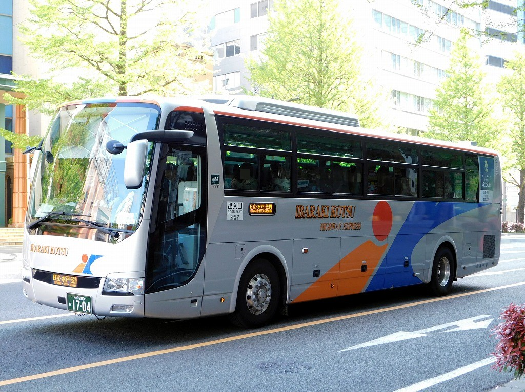 Ibaraki kotsu Fuso Aero Ace (QTG-MS96VP)